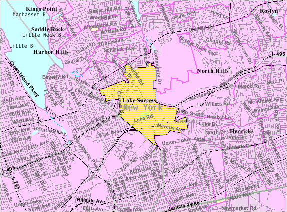 U.S. Census 2000 reference map for Lake Success